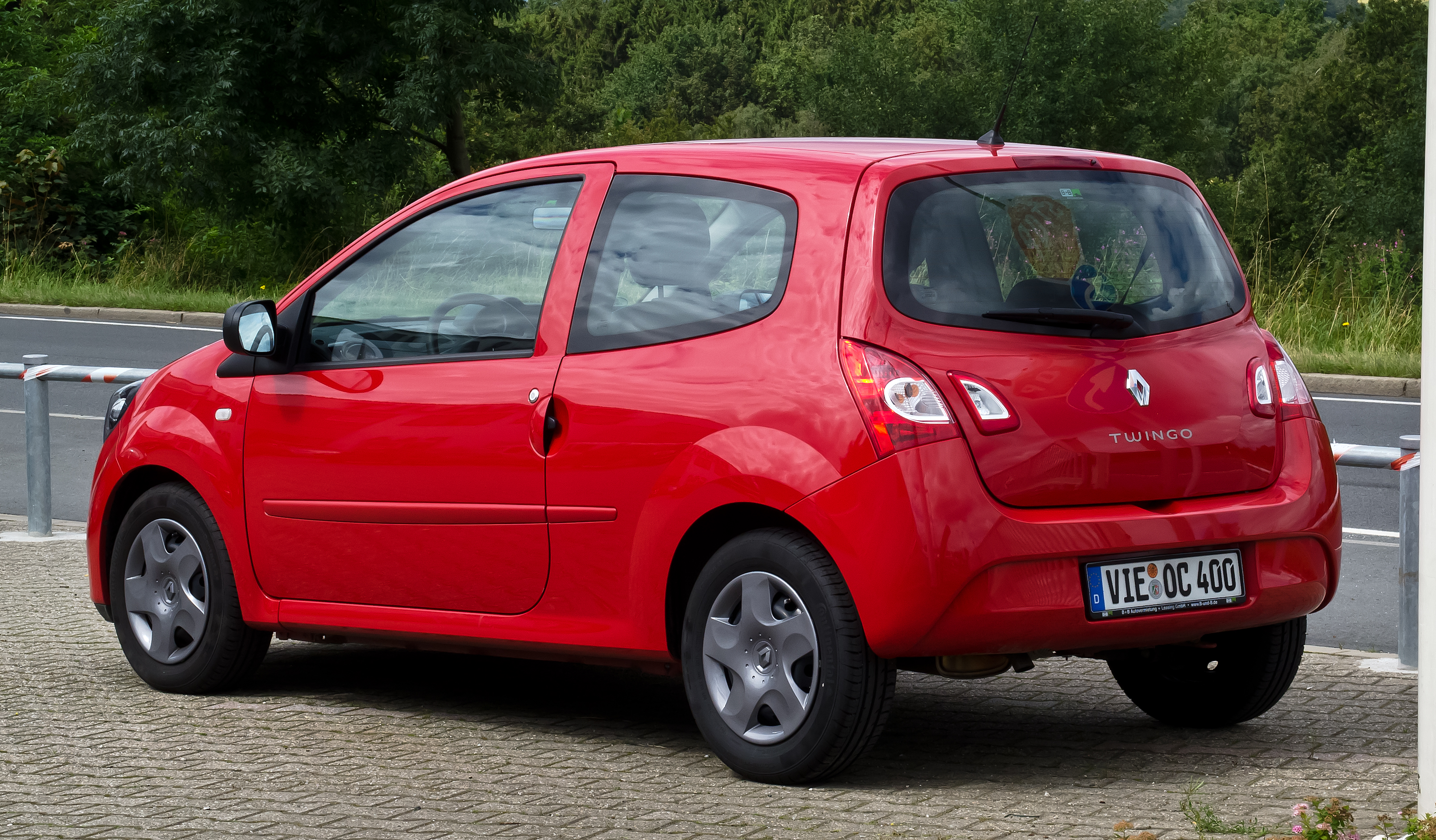 Renault Twingo (II, Facelift)